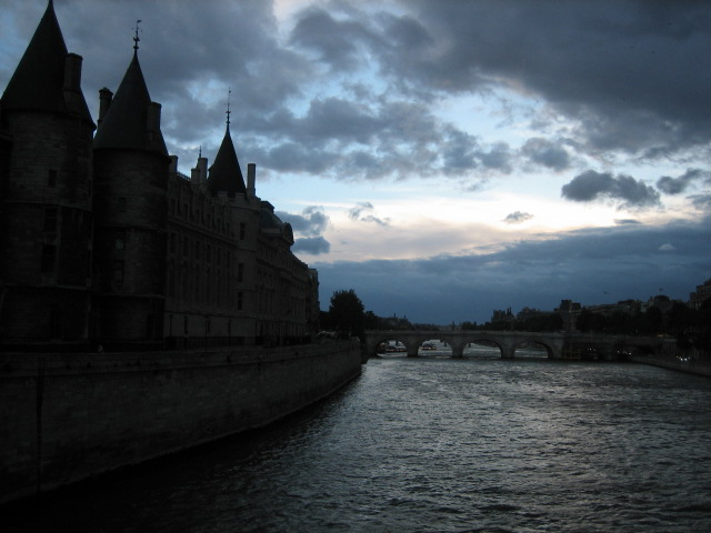 Seine(塞纳河).jpg